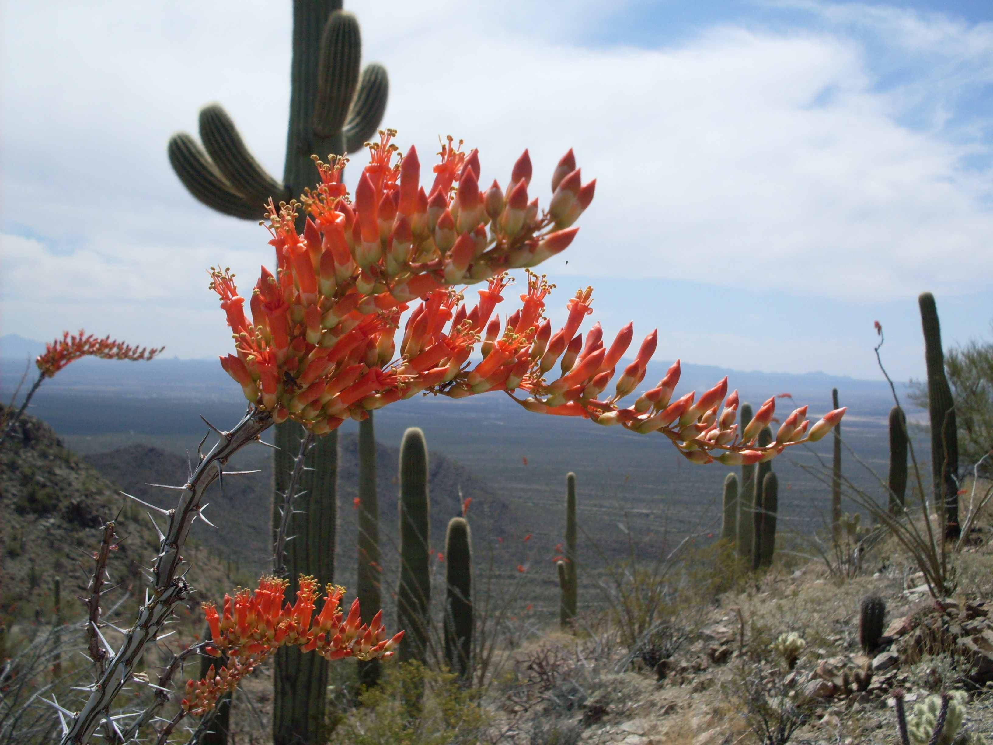 Ocotillo Fouquieria splendens flowers. Hugh Norris Trail, Saguaro National Monument, Arizona.